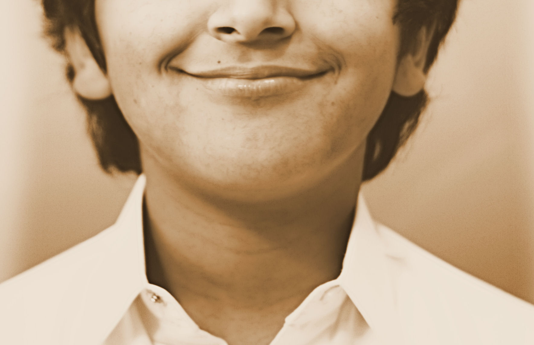 A smile a day keeps the pain and the doctor away